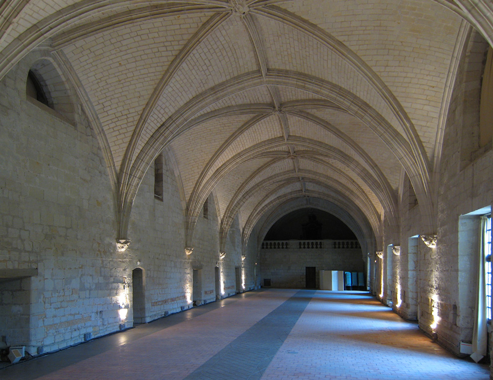 Monastery Fontevraud in France, refectory